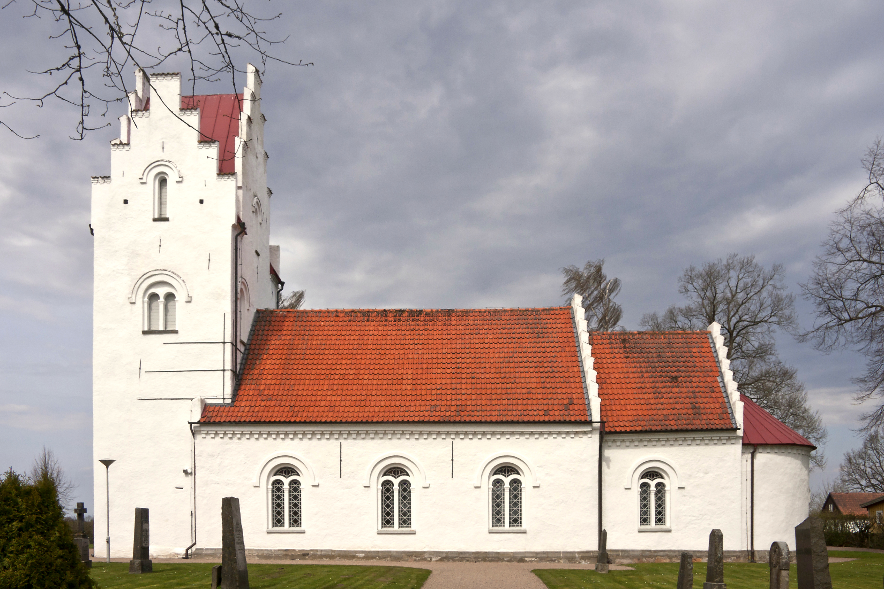 Äsphult Church, Äsphult Parish, Diocese of Lund, Church of Sweden.